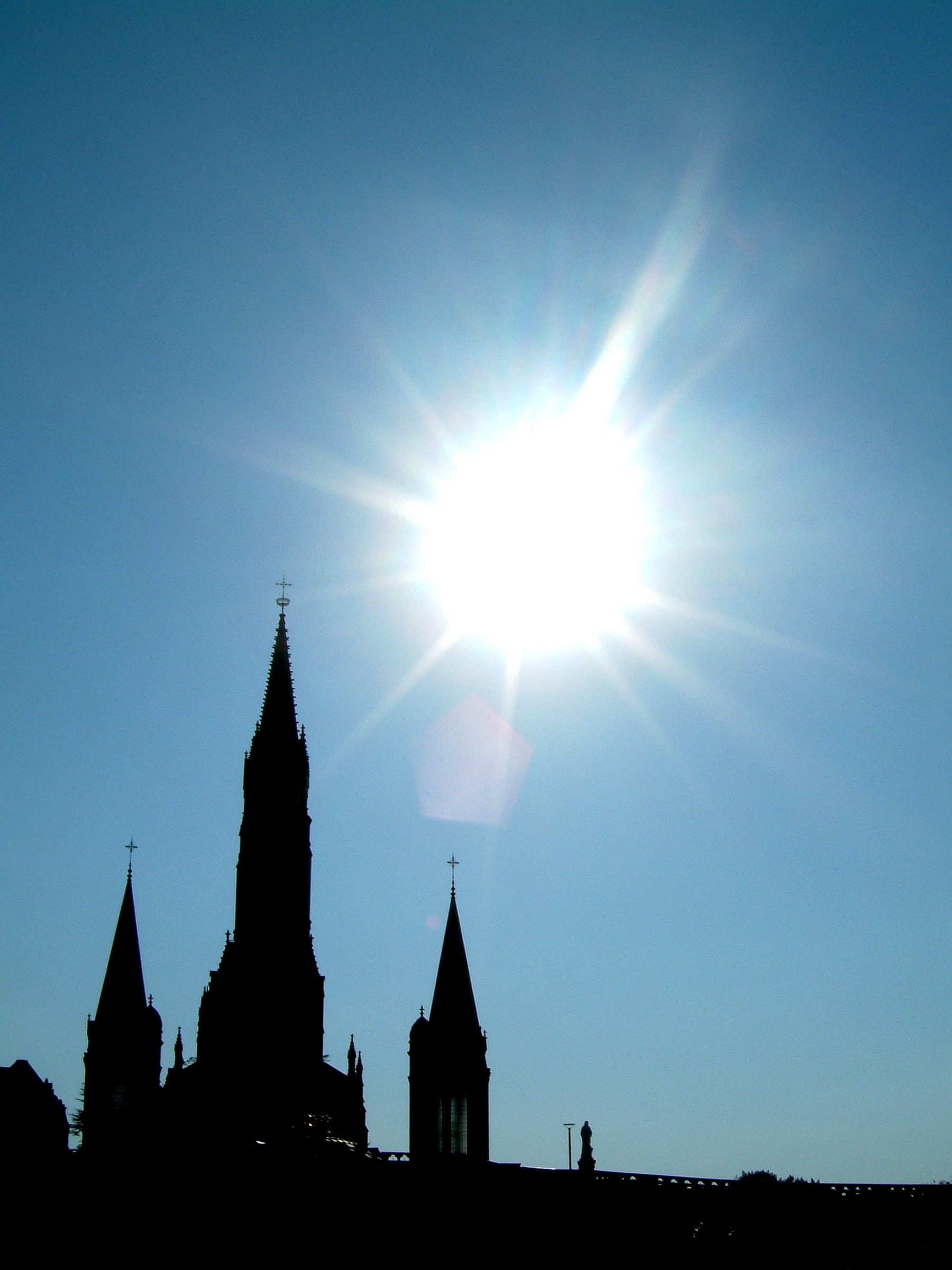 Skyline of Lourdes sanctuary